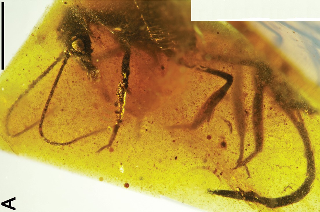 Alavaraphidia imperterrita gen. et sp. n., holotype MCNA 13608. A lateral habitus Scale bars: A = 1 mm.